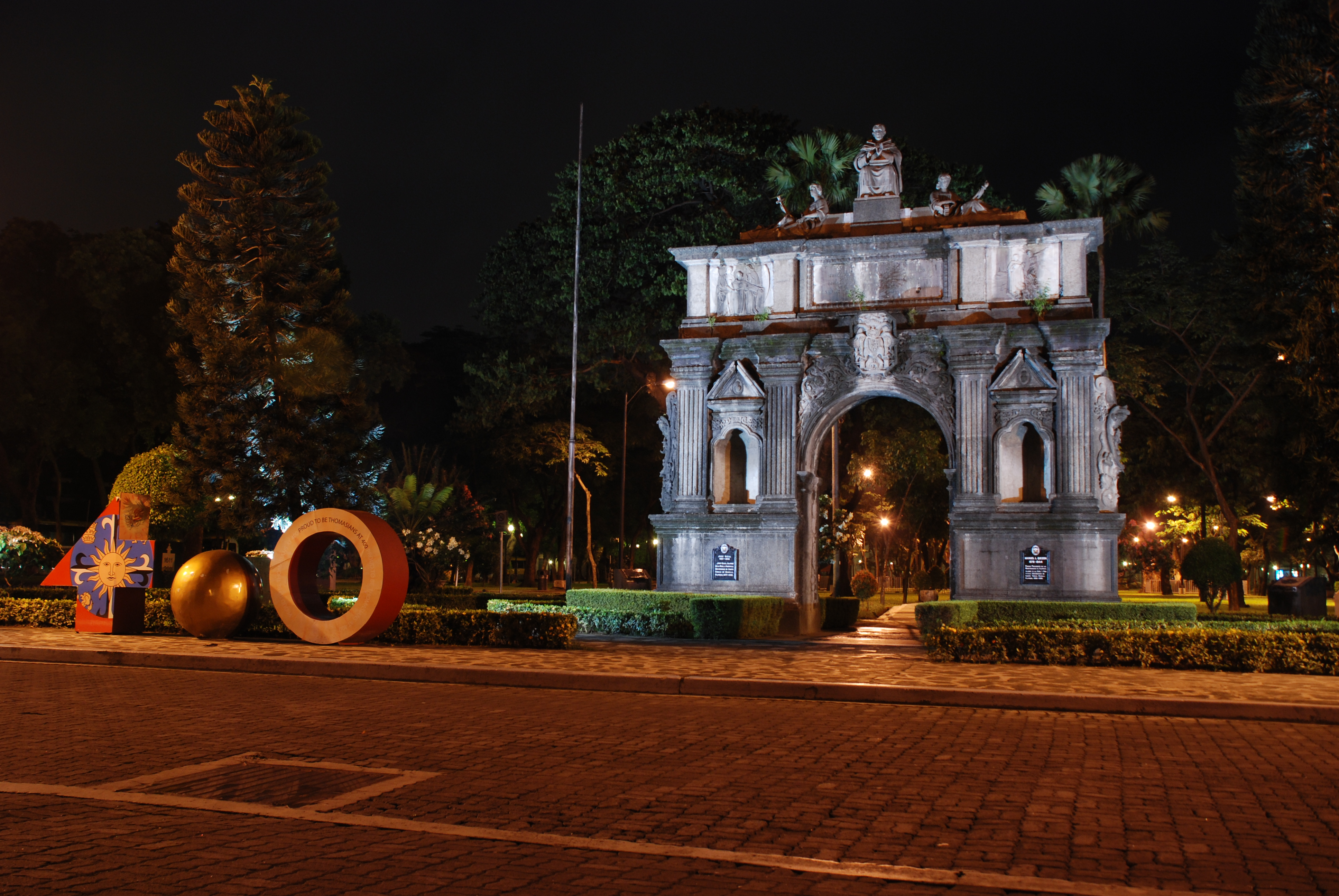 This structure is seen in the main entrance of the University of Santo Tomas--the oldest Pontifical, Royal, and Catholic university in the country.